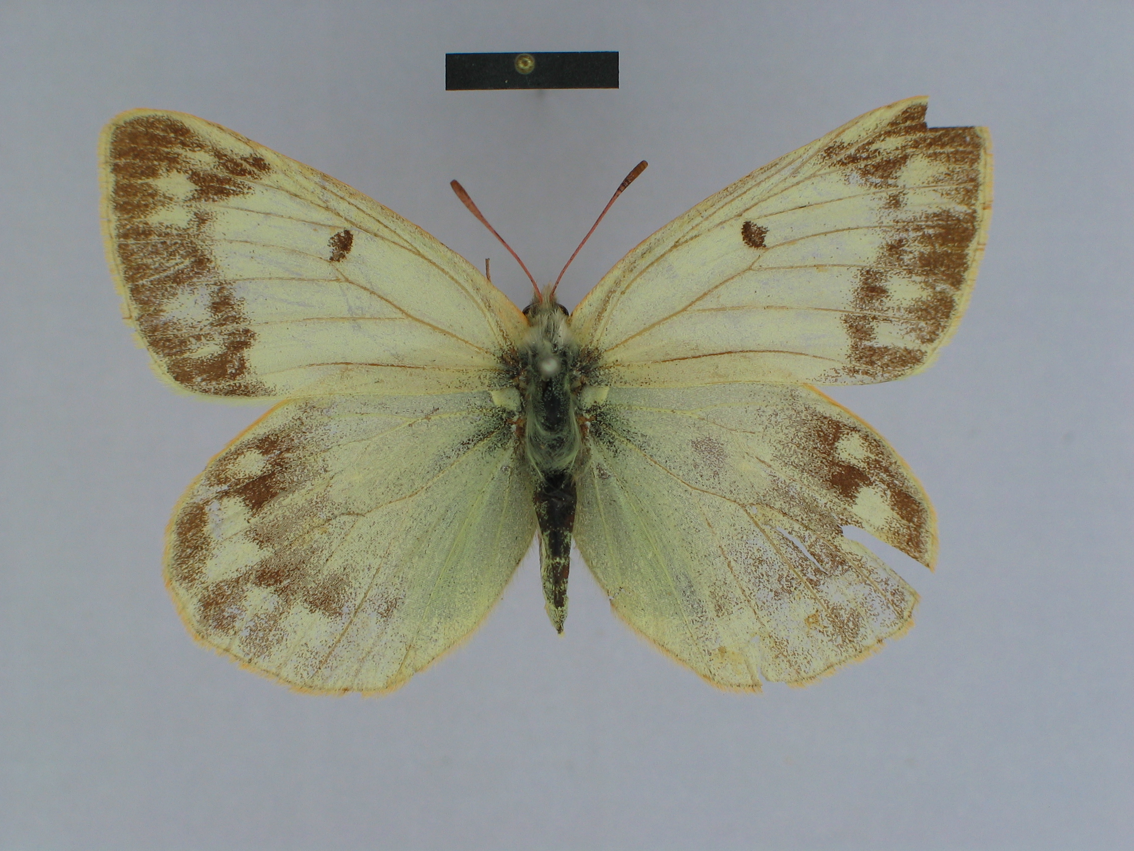 Paralectotype of the species Colias grumi grumi from the collection of the Zoological Museum of the Zoological Institute of the Russian Academy of Sciences (Berlin); ♀ dorsal side; scalebar=1 cm